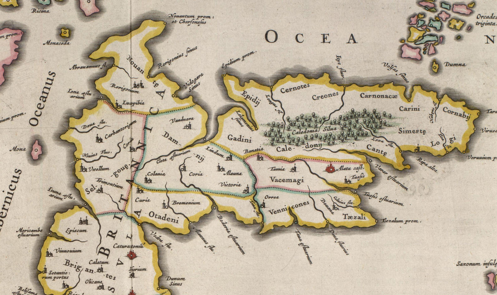 subregion of Image:Blaeu - Atlas of Scotland 1654 - INSULAE ALBION ET HIBERNIA - Old Great Britain.jpg, showing the territory of the Damnii